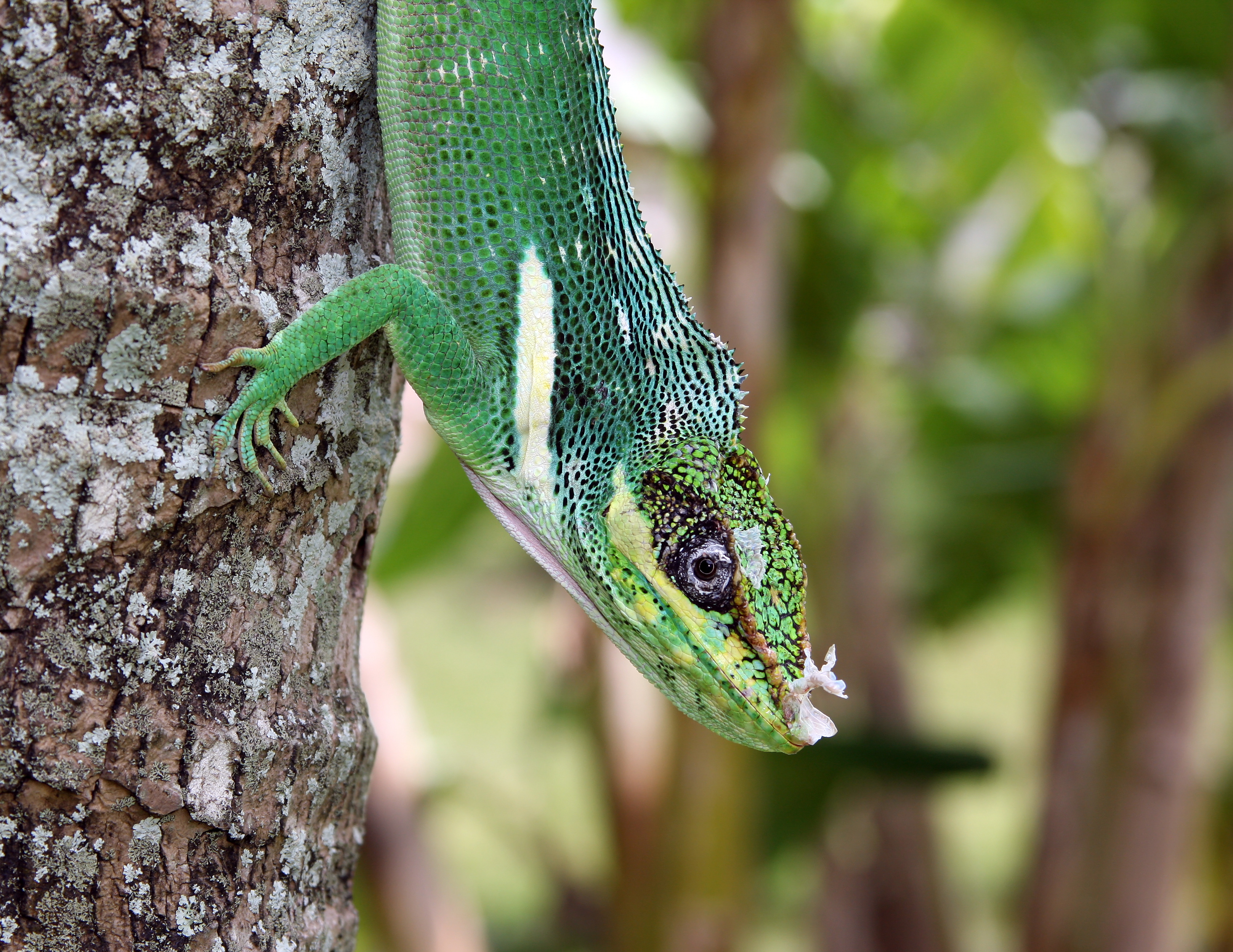 Anolis equestris showing bright colors after having won a territorial dispute.